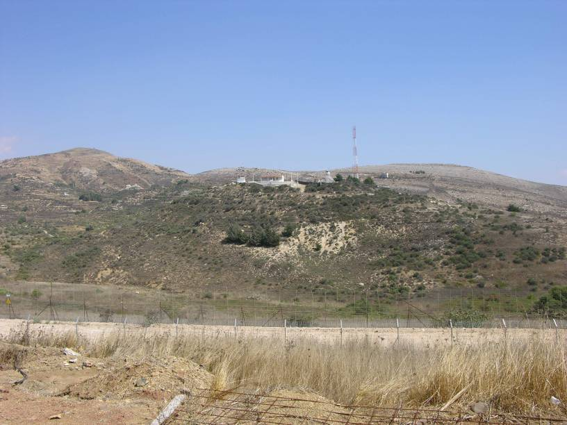 the Shouting Hill of Syria, facing Majdal Shams